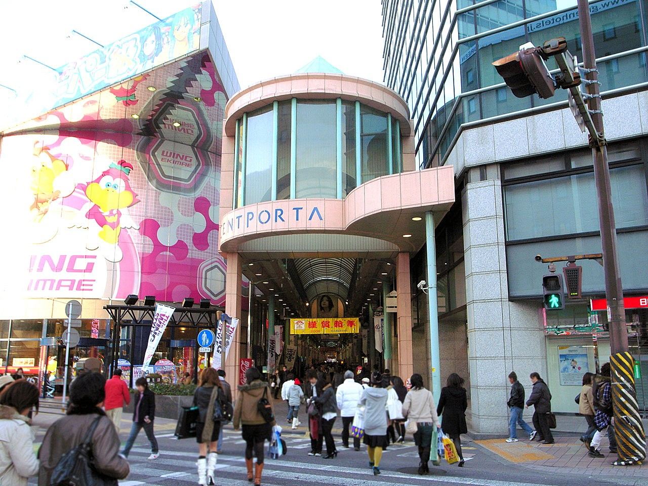 Centporta Chuocho, Shopping Mall in Oita City, Oita Pref., Japan / セントポルタ中央町（大分県大分市）